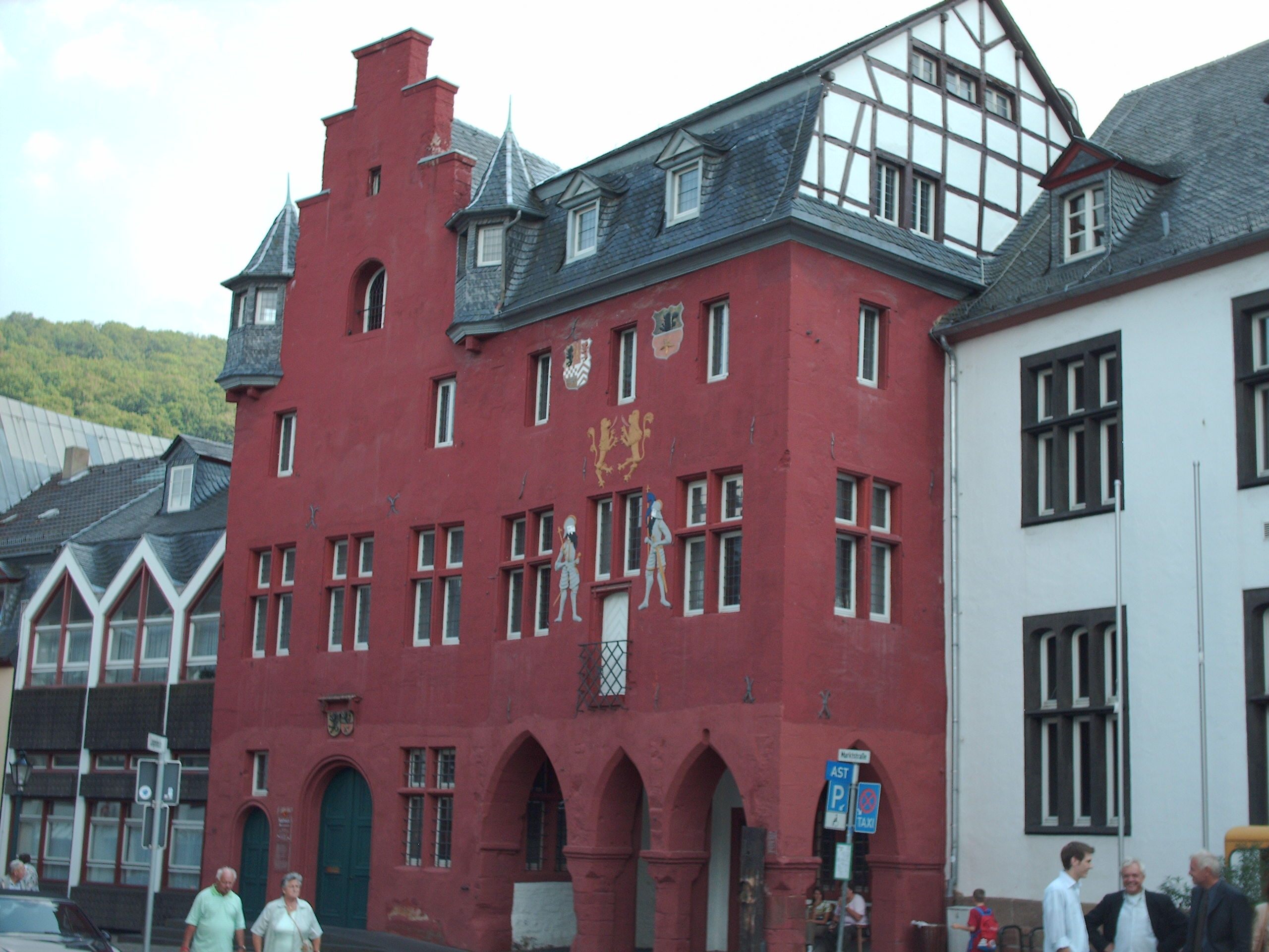 Town hall, Bad Münstereifel, Germany check usage